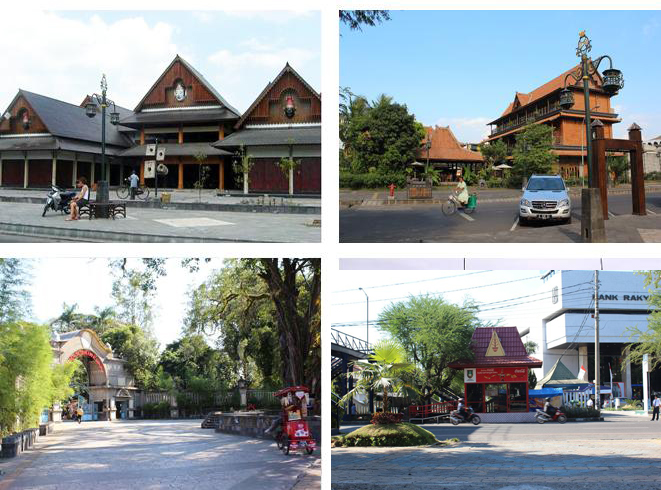 Several spots in Solo. Clockwise from upper left: Windujenar Market, Omah Sinten, JL Slamet Riyadi, and Entrance to Sriwedari Park